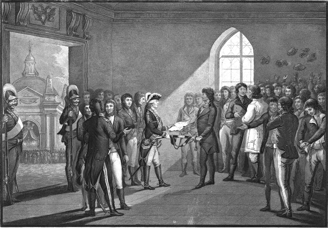 Emperor Paul I freeing Tadeusz Kościuszko